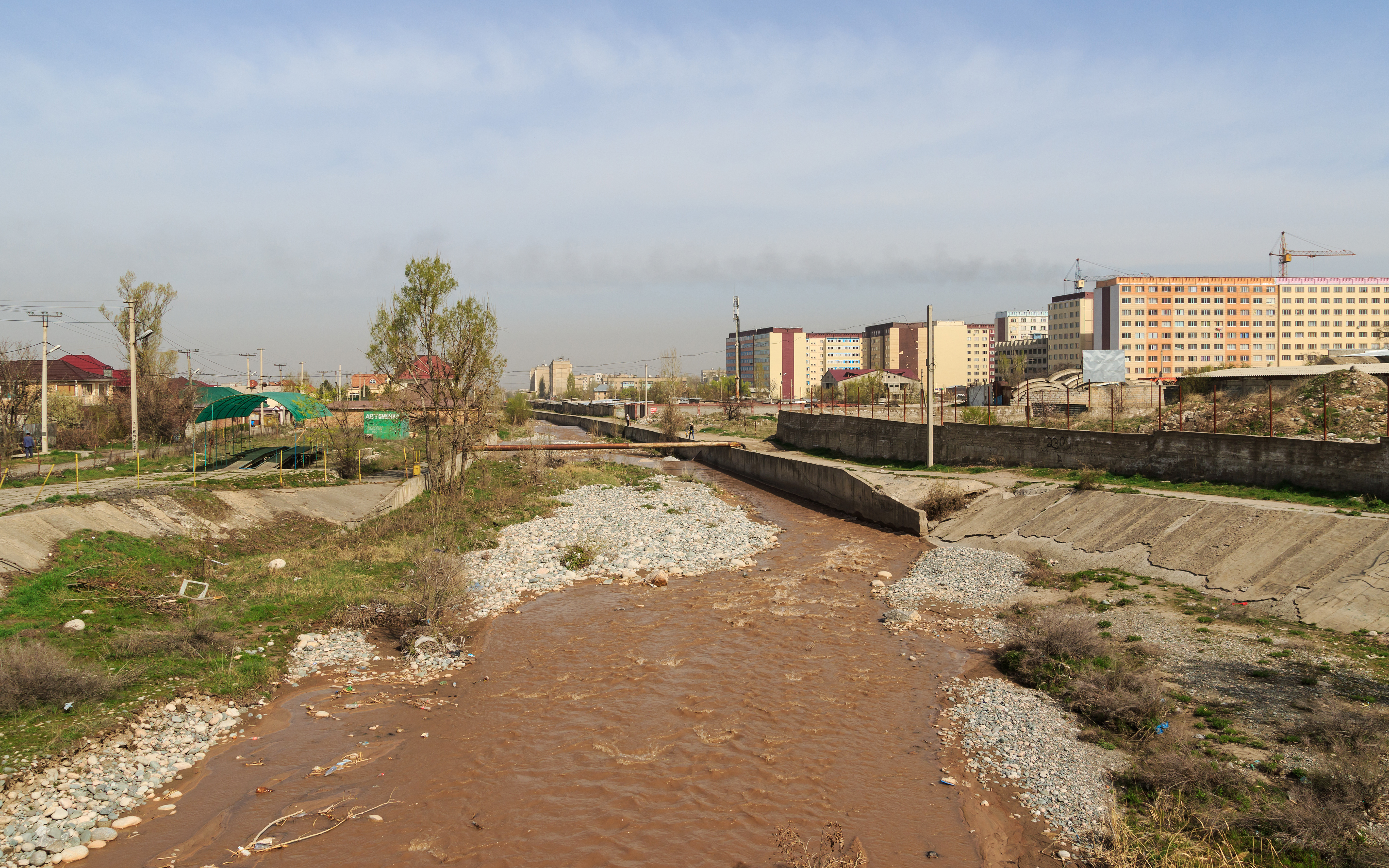 Alamudun River in Bishkek, Kyrgyzstan